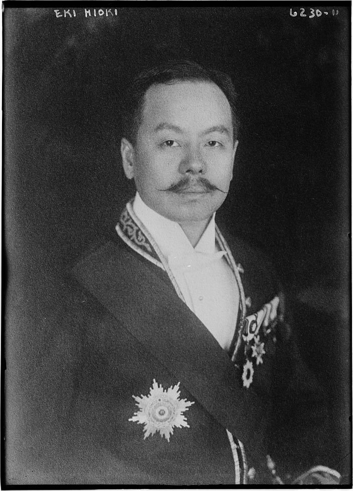 Eki Hioki